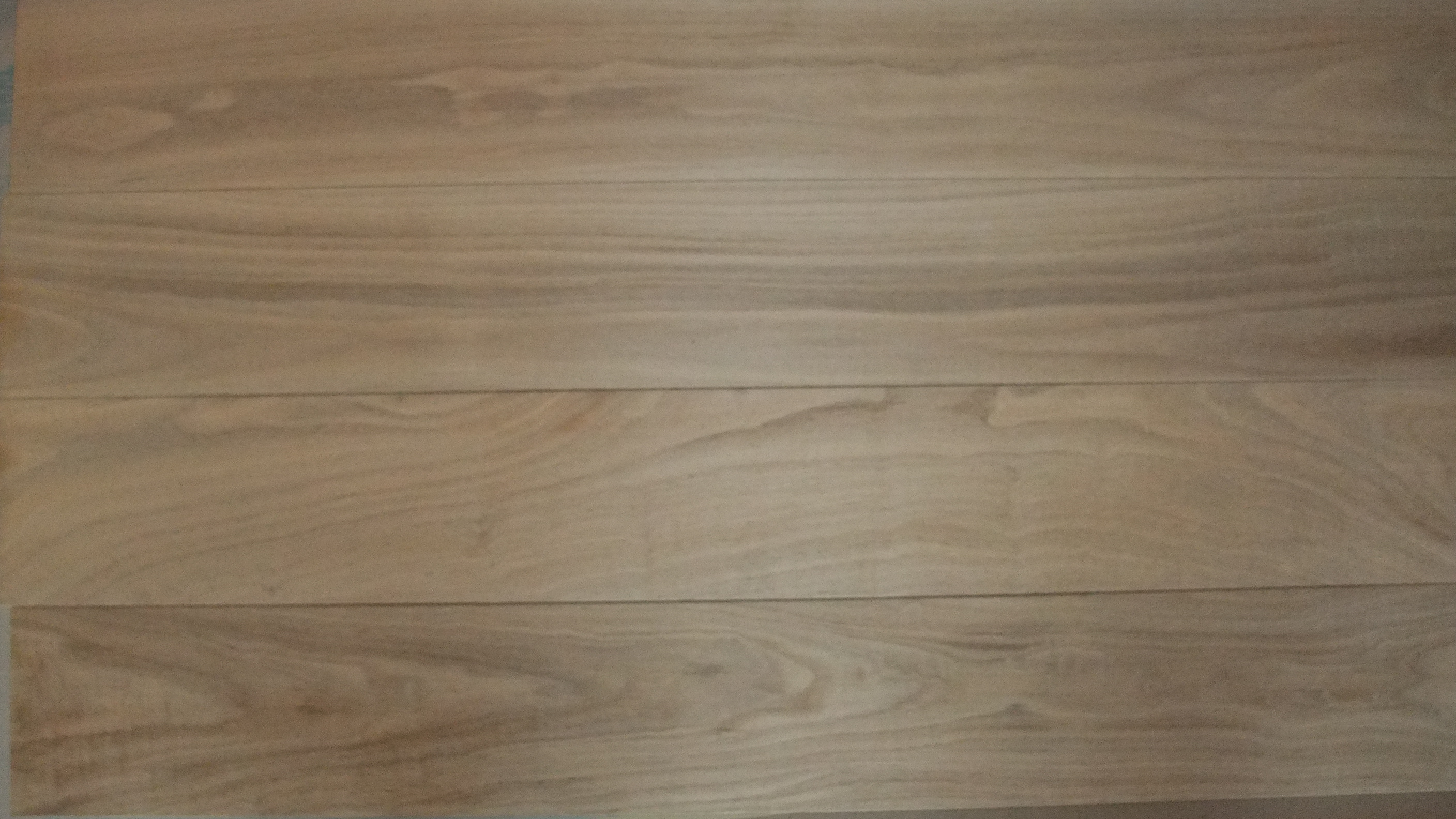 Castanea crenata - Japanese Chestnut